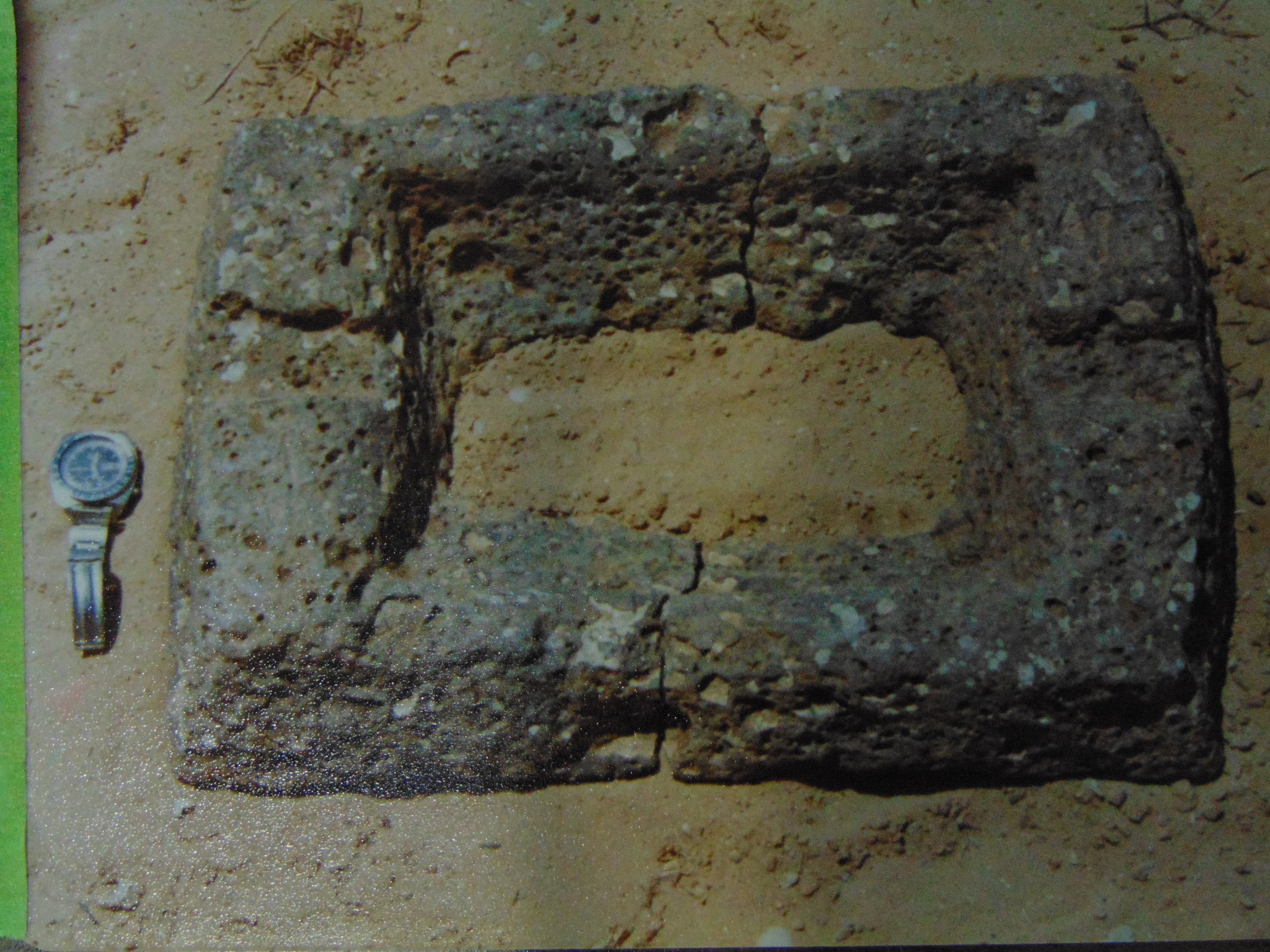 Grain grinding stone, basalt, excavated from the Persian period strata at Tel Michal. The side grooves were for a wooden handle to slide the stone over a base.